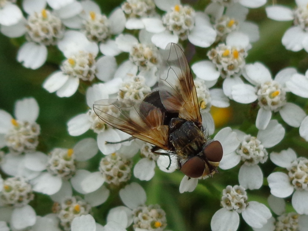 Ectophasia crassipennis. Found ir Rīga town, Latvia.